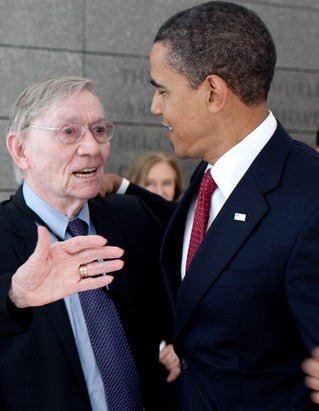 Charles Payne greets Michelle Obama (off frame) and Barack Obama in Colleville-sur-Mer, France on the 65th anniversary of D-Day. (Payne's wife, Melanie, shown in uncropped original)